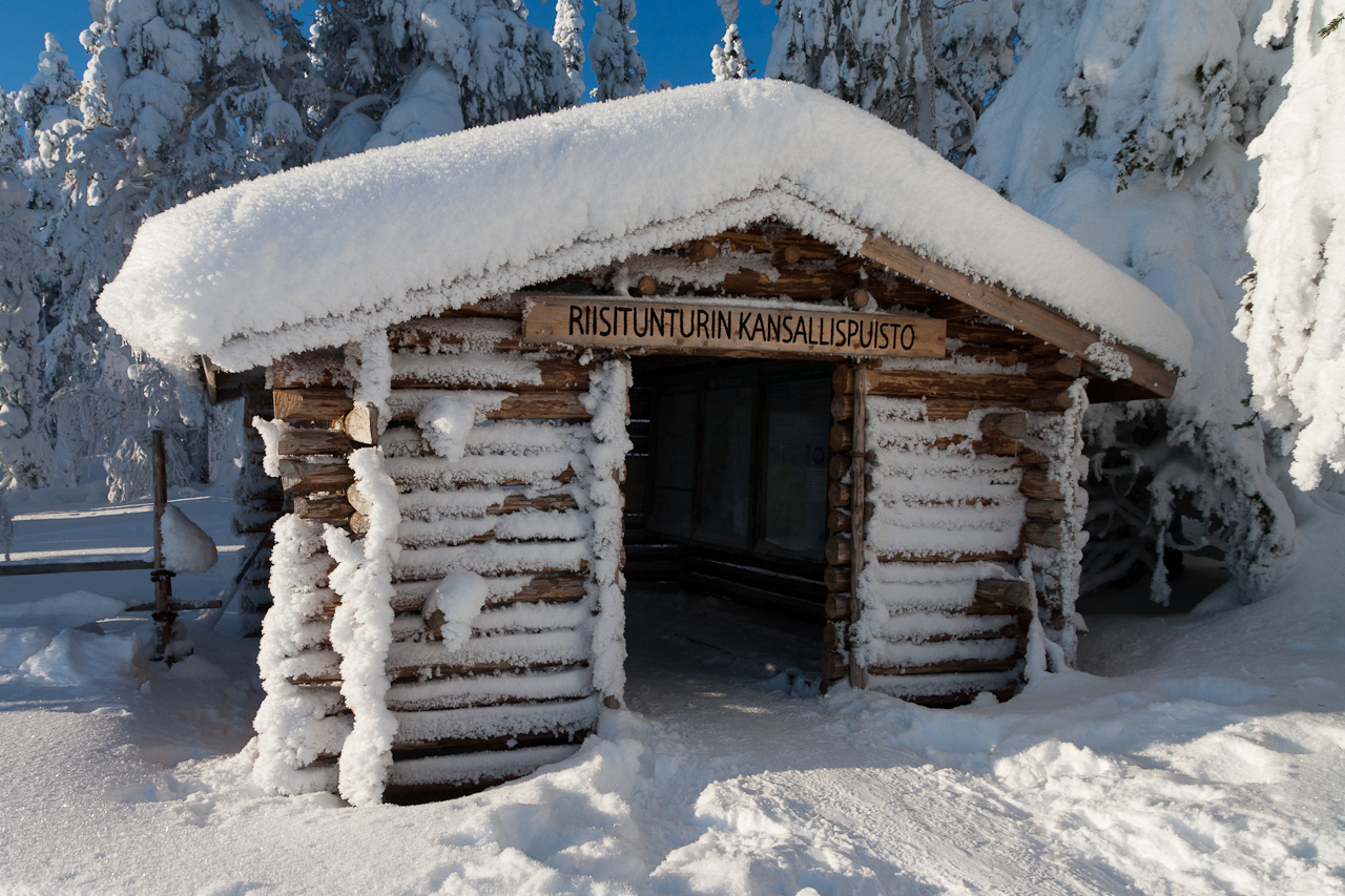 Entrance of the Riisitunturi national park in Lapland.